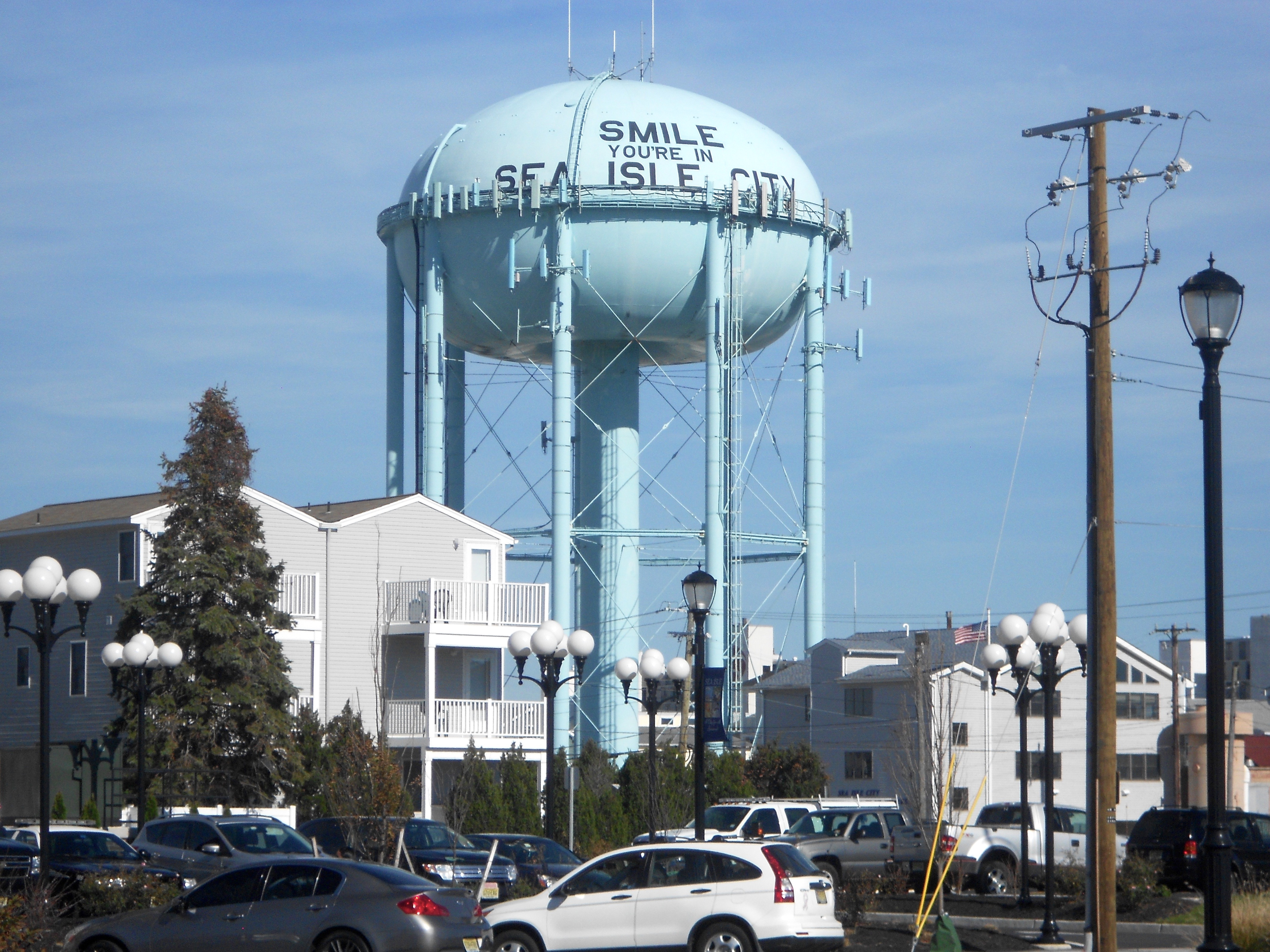 Watertower in Sea Isle City, New Jersey